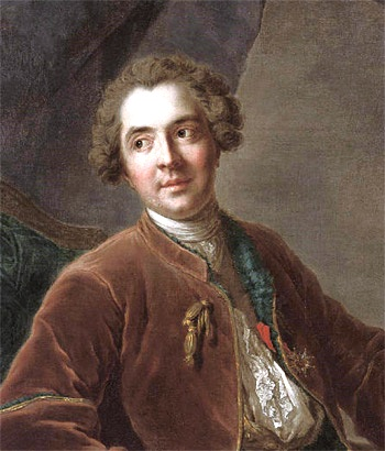 Portrait of Louis-Antoine Crozat